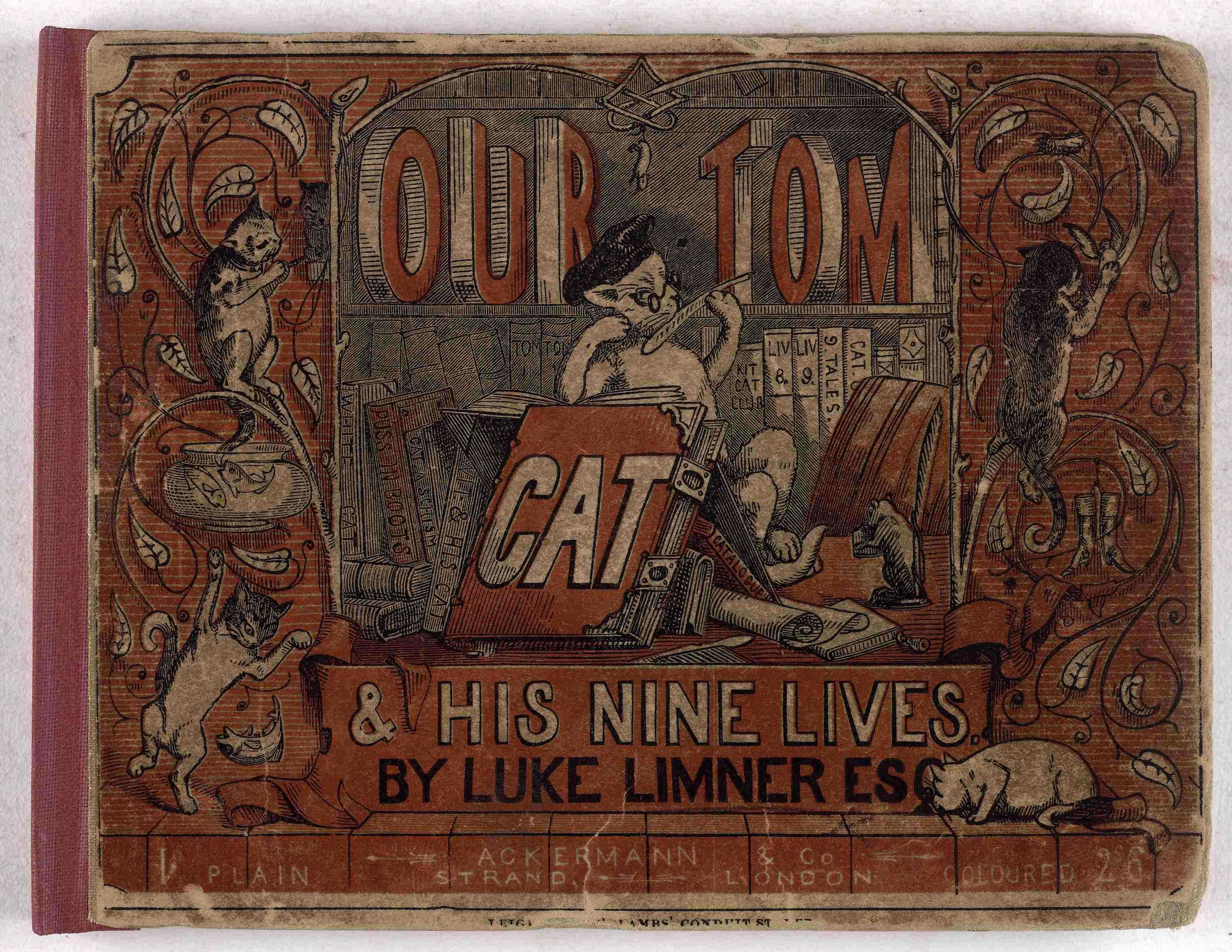 Style: Pictorial|Publishers binding|Cat; Caption: Upper cover; Colour: Red; Edge: Unspecified